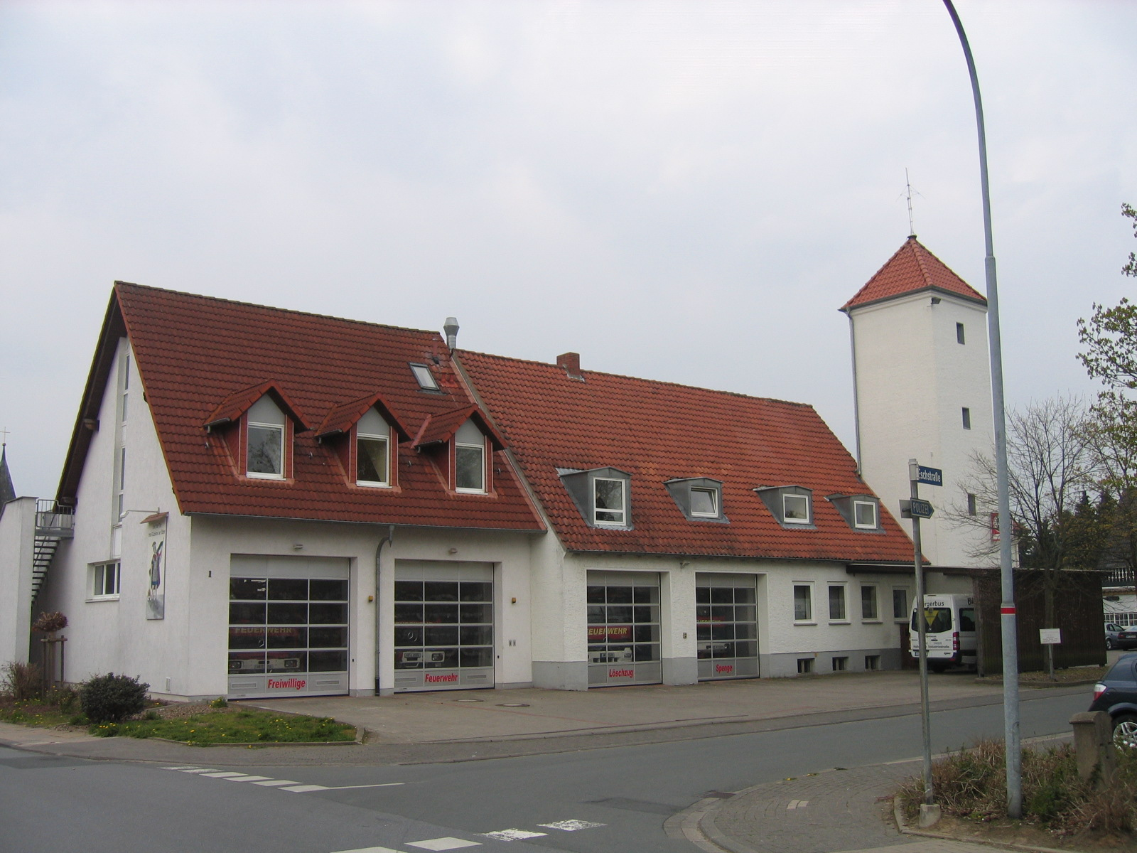 Spenge, District of Herford, North Rhine-Westphalia, Germany.